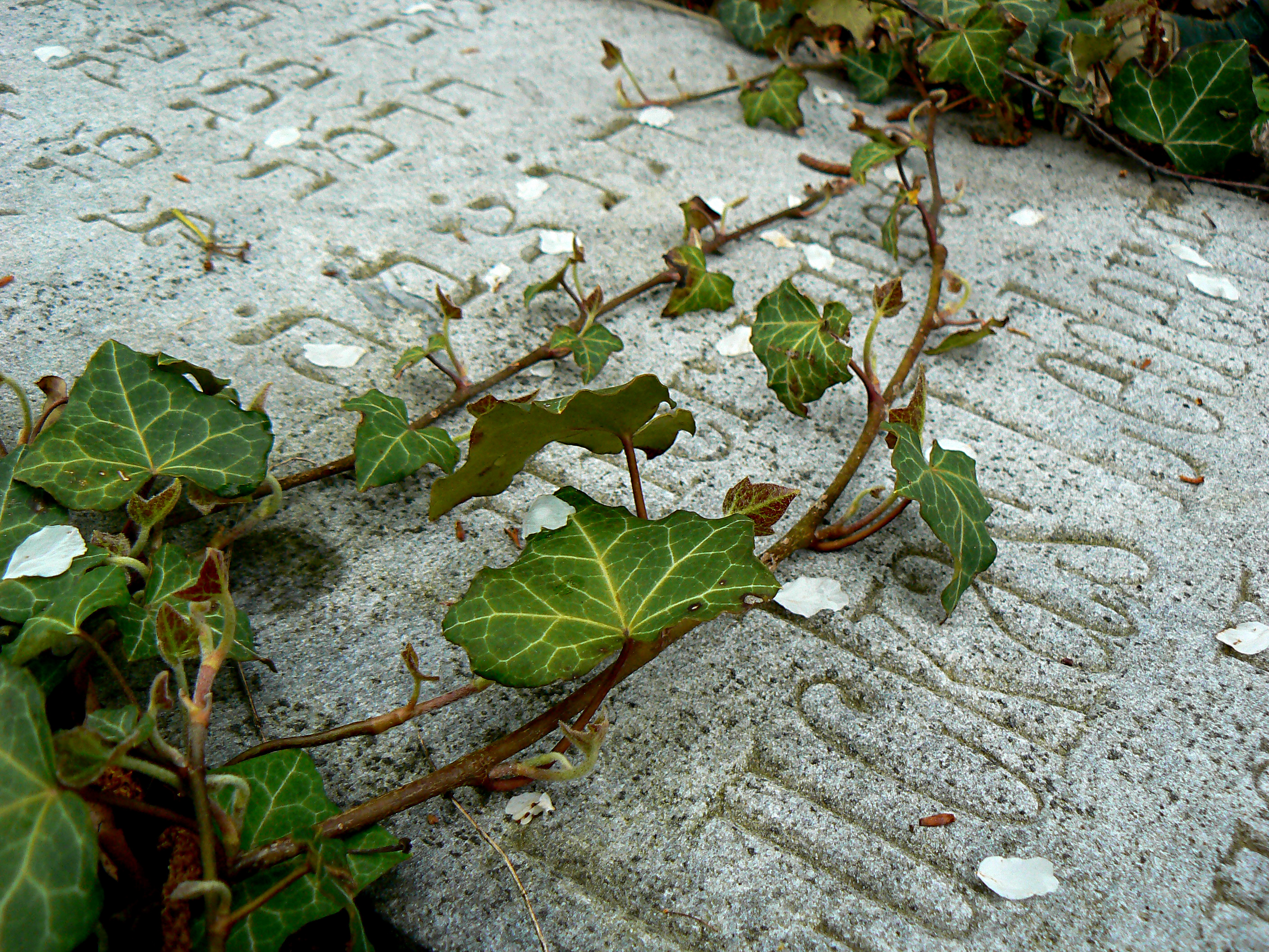 Jewish cemetery in Radenín near Chýnov in Tábor district, Czech Republic - detail with ivy